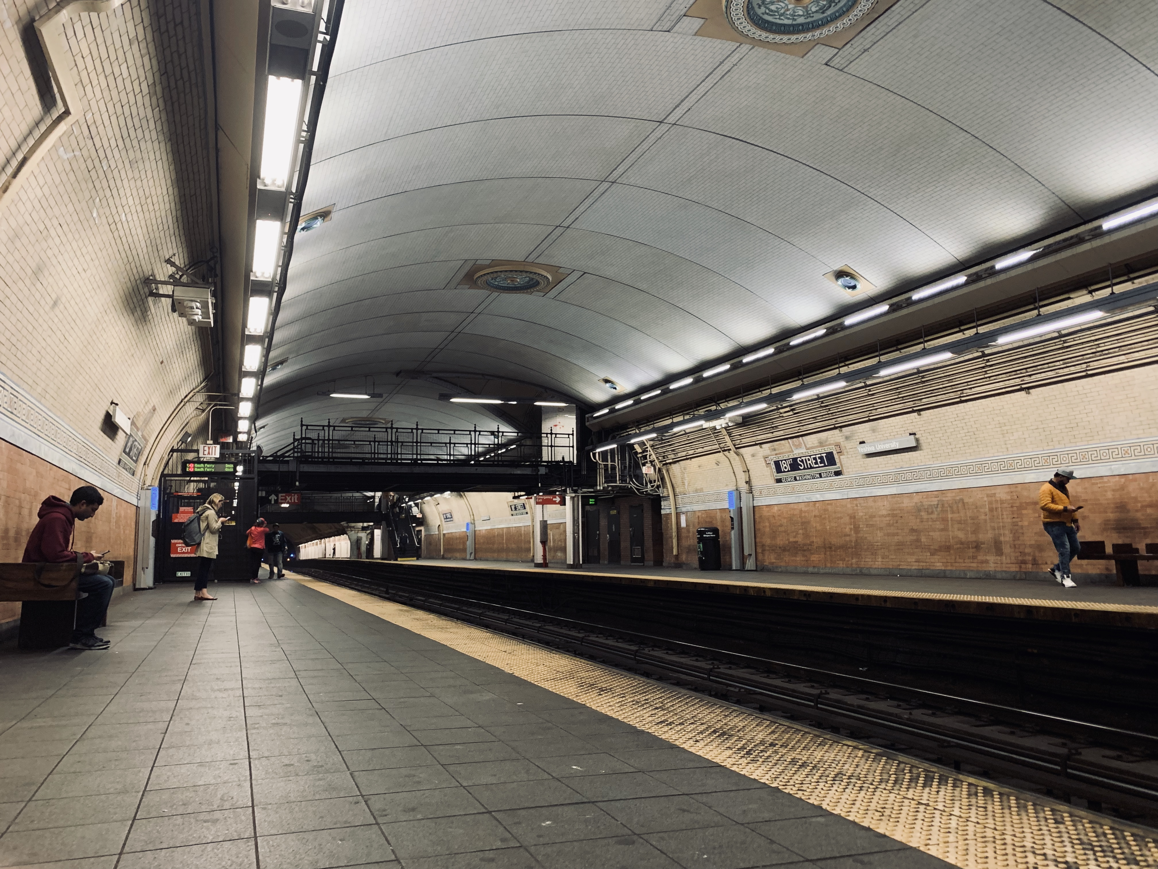 This picture shows 181st up-to-date with repairs